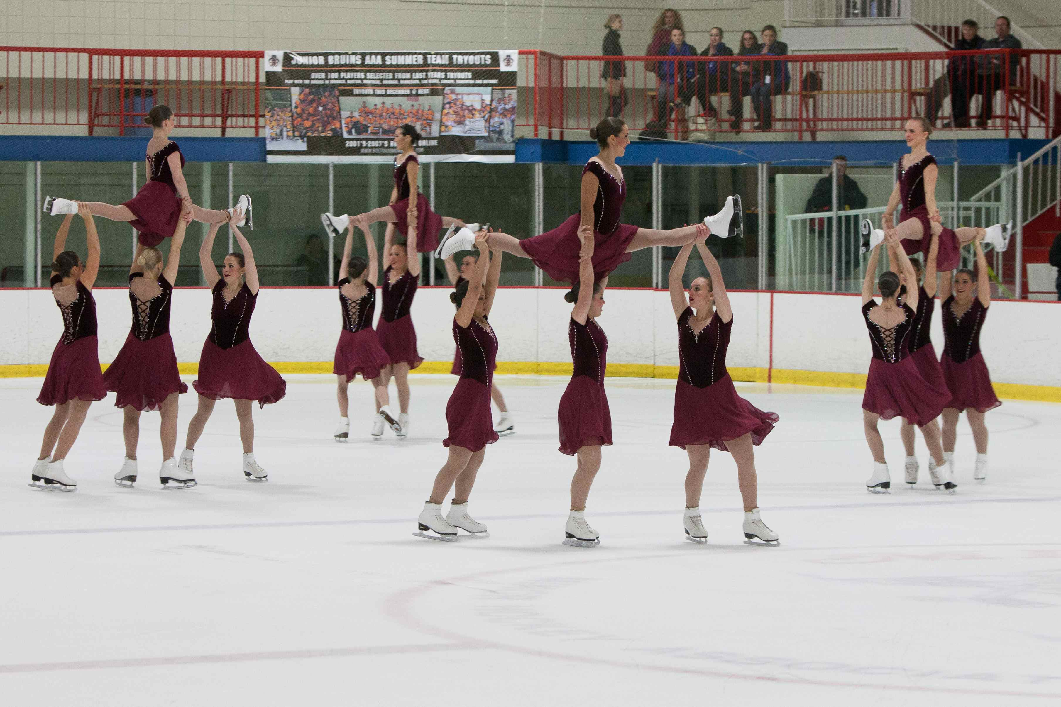 The Haydenettes, the 21-time US Synchronized Skating National Champions at the Senior Level. The Haydenettes, who skate out of Lexington, MA, are the only team in the World which has won a medal at the past four World Championships.